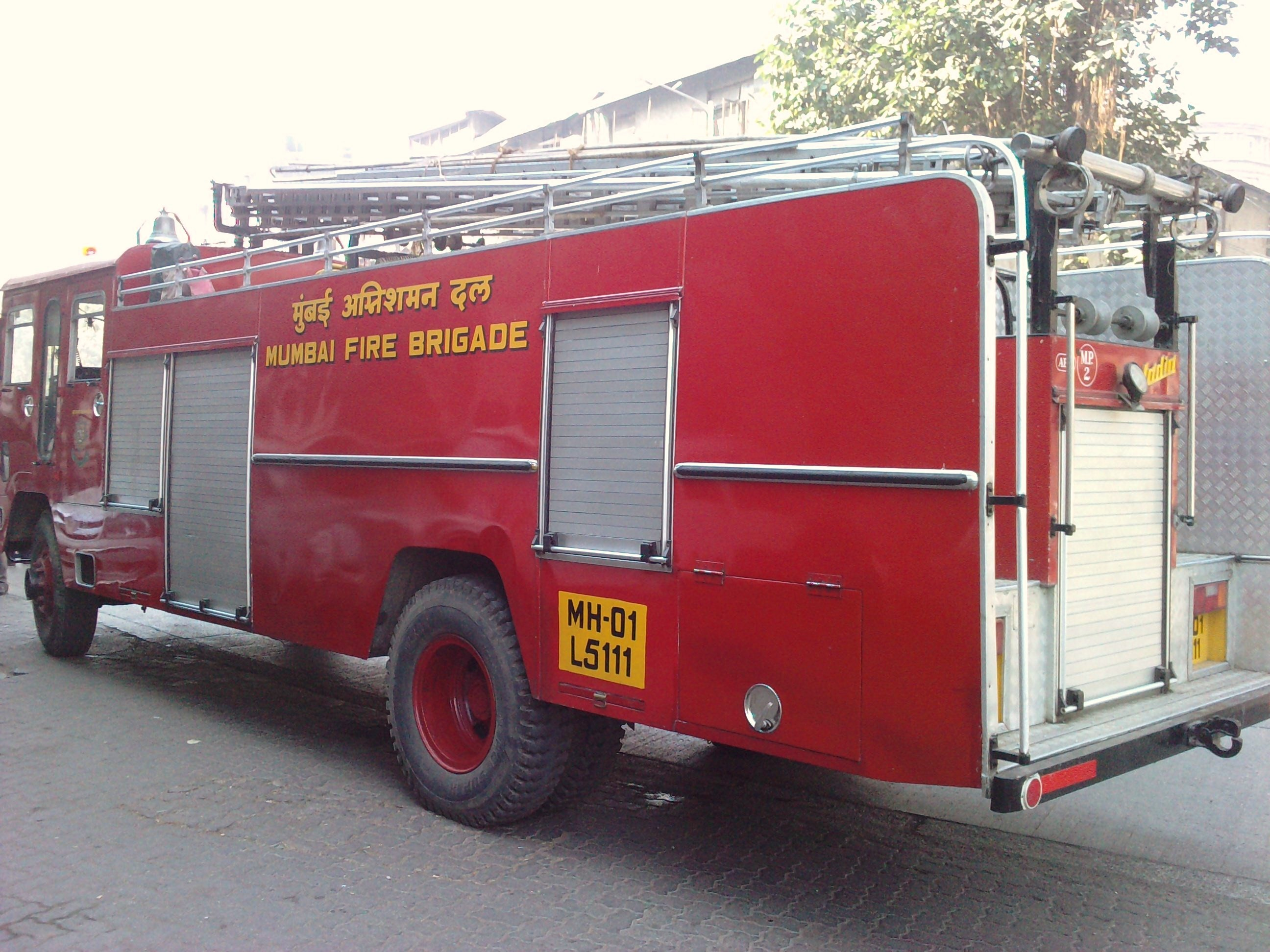 TAKEN DURING WIKIPEDIA TAKES MUMBAI 1 PHOTOWALK